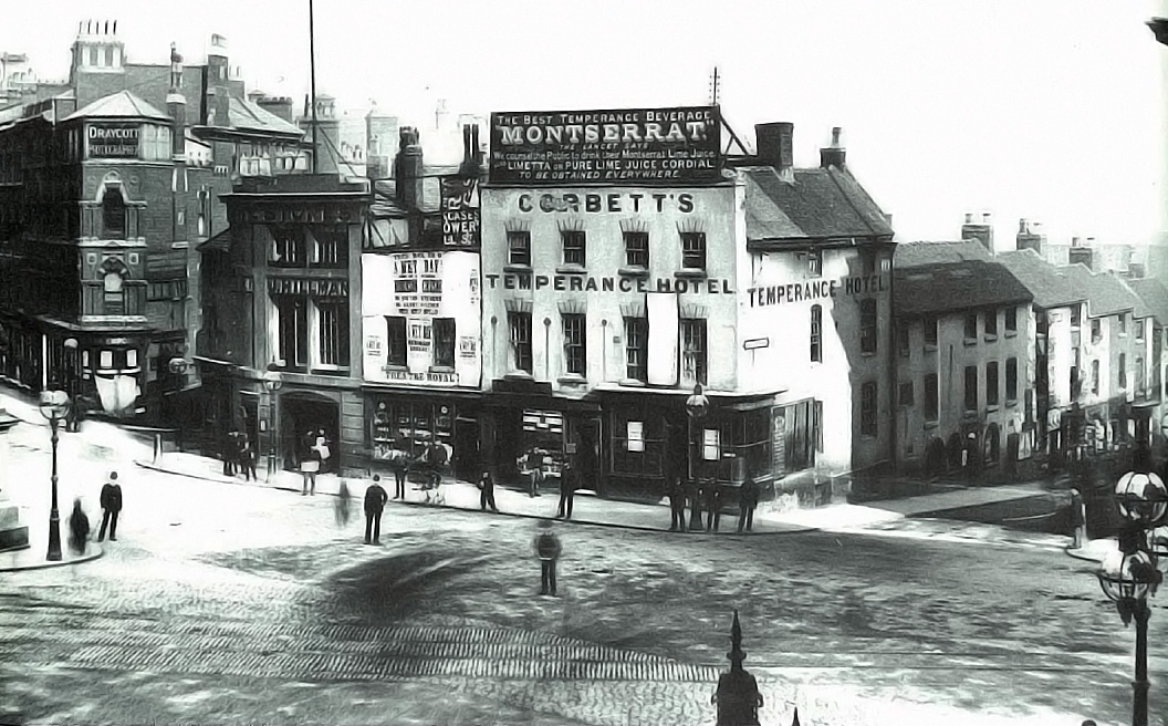 Corbett's Temperance Hotel and Joe Hillman's dining rooms at the top of Pinfold St and Hill St on the site of the Old Post Office.